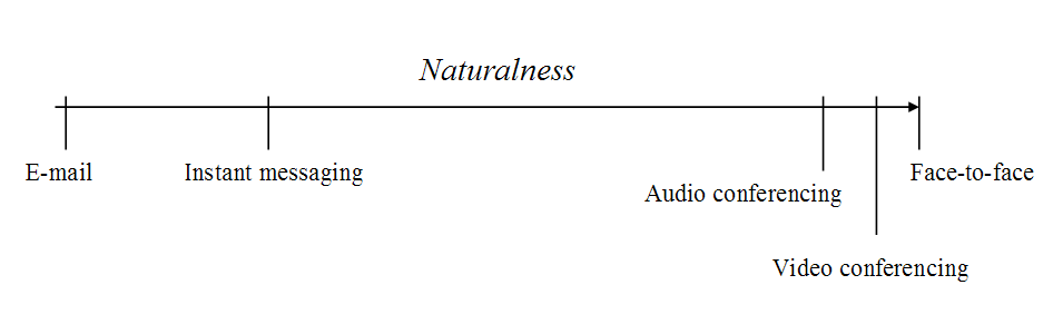 Figure 2 of media naturalness theory article.